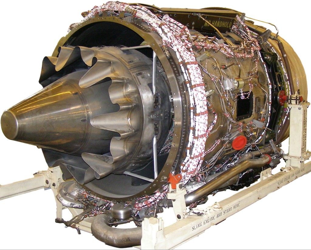 Rolls-Royce BR710 Turbofan, Berlin Tempelhof Airport main hall, clean background